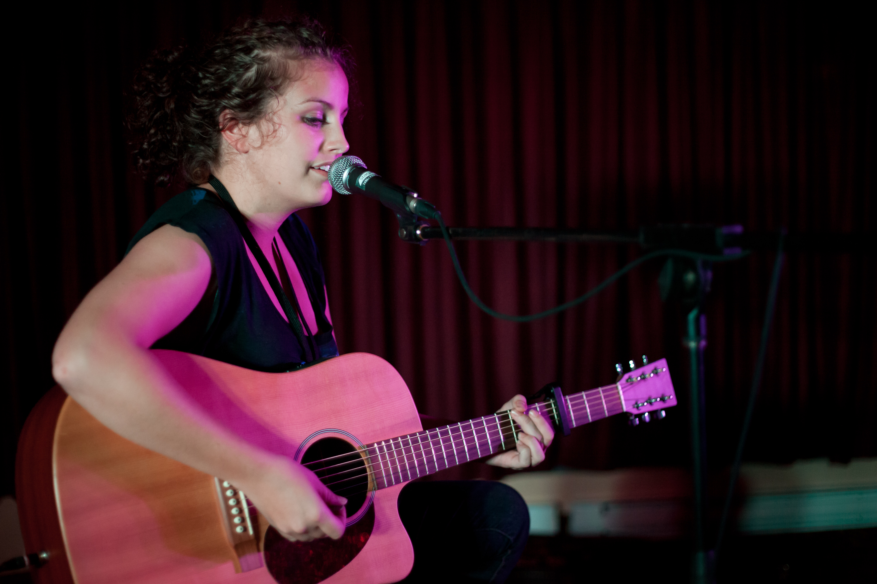 Kellie Loder performing at YC (Youth Conference) 2010 Coffee House in Gander, Newfoundland